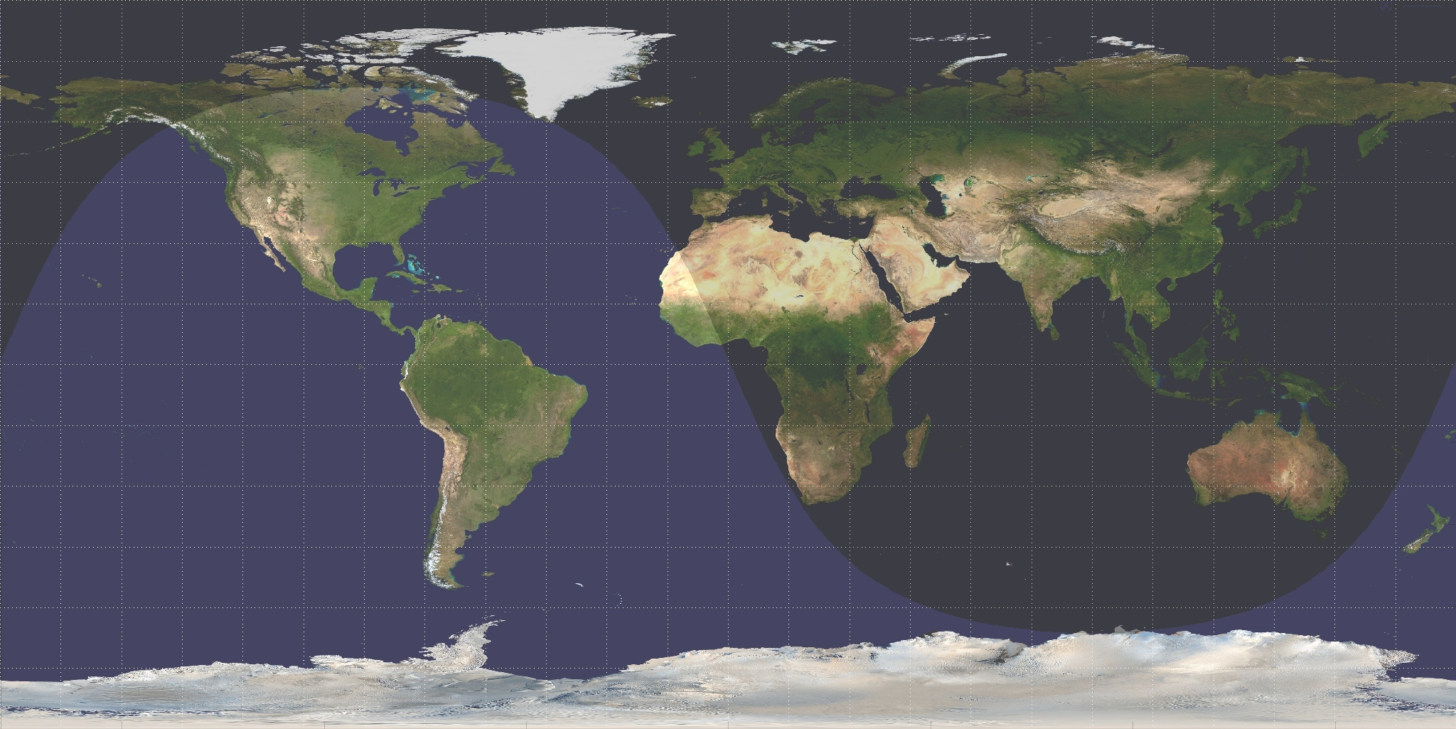 Earth Equirectangular-projection + terminator (around 6 pm UTC near the december solstice)